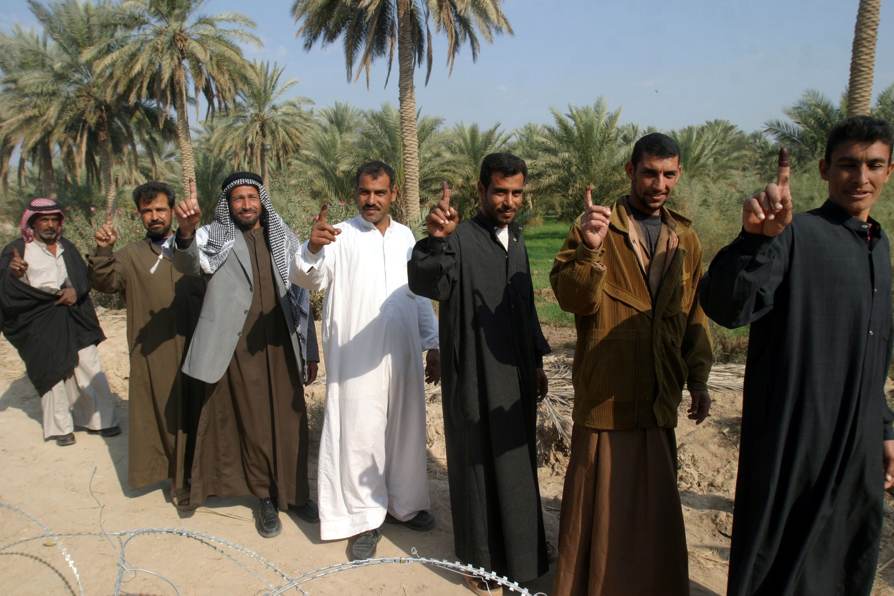 A group of Iraqi citizens walk down a path showing their purple fingers, signifying that they voted in their country’s first parliamentary election. Iraqi citizens elected their first permanent parliamentary government, which will lead the new democracy for the next four years. U.S. Marine Corps photo by Lance Cpl. Michael J. O'Brien (RELEASED) Image: 051215-M-4314O-002.jpg